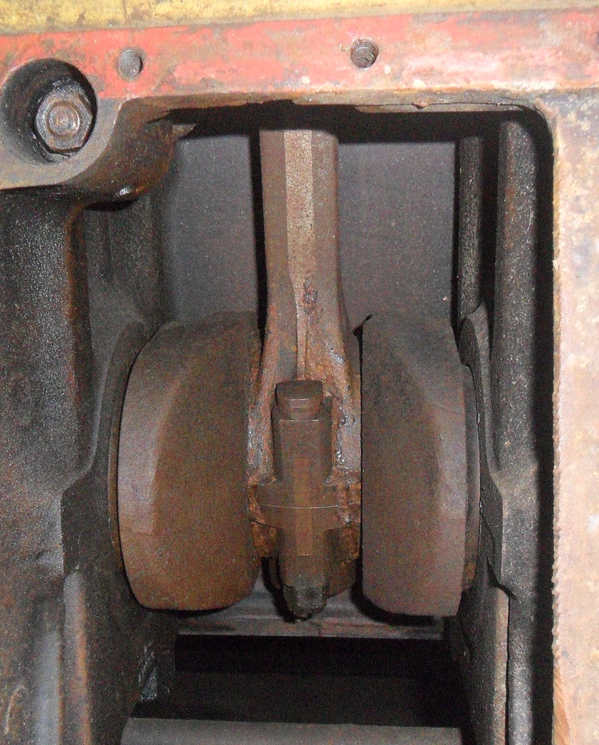 Connecting rod in an engine